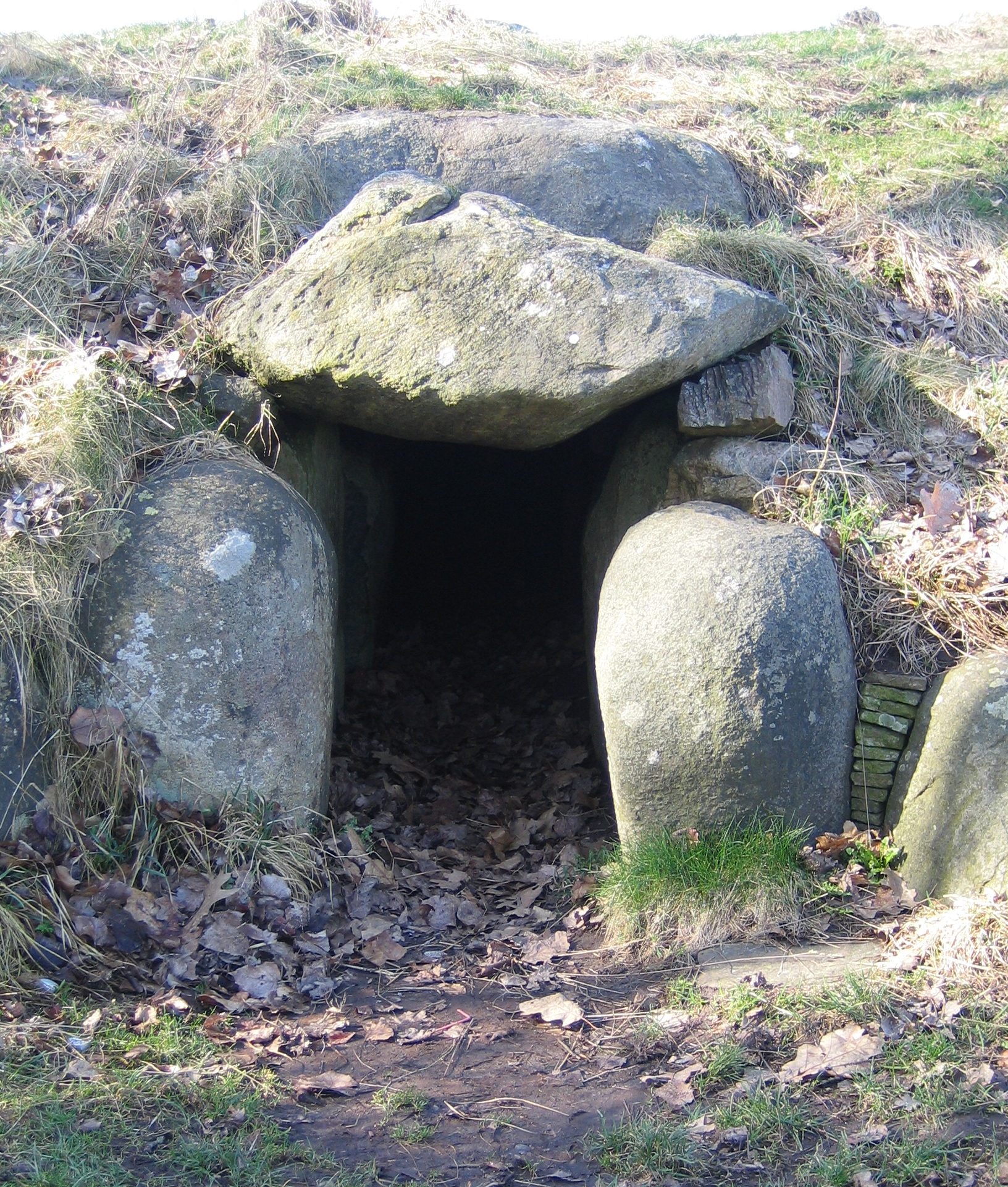 Entrance of Gillhög megalith grave in Skåne, Sweden